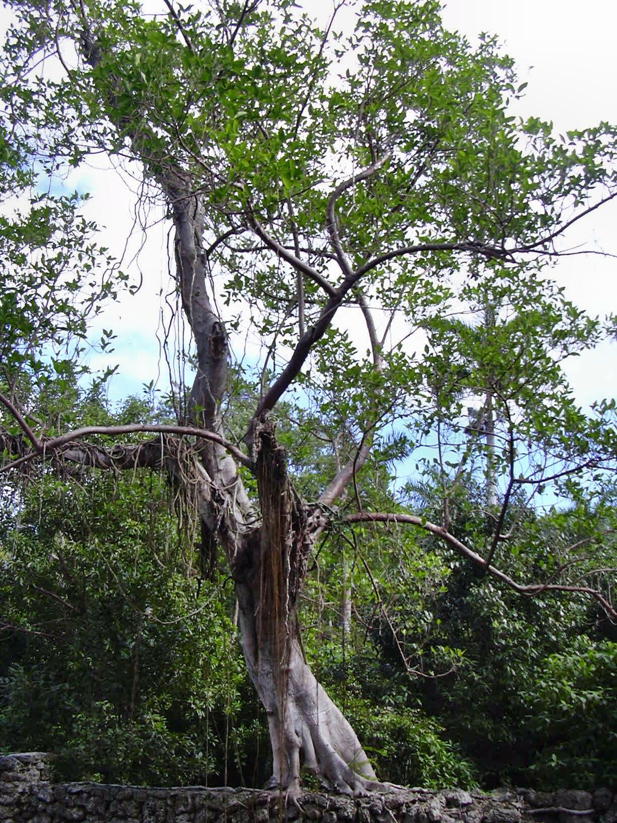 Habit of the Ficus aurea in Florida.